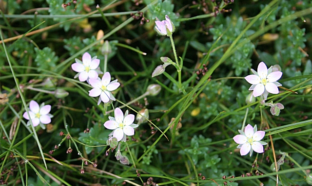 Lesser Sea-spurrey (Spergularia marina) An unobtrusive but fairly common plant in damp places by the sea.